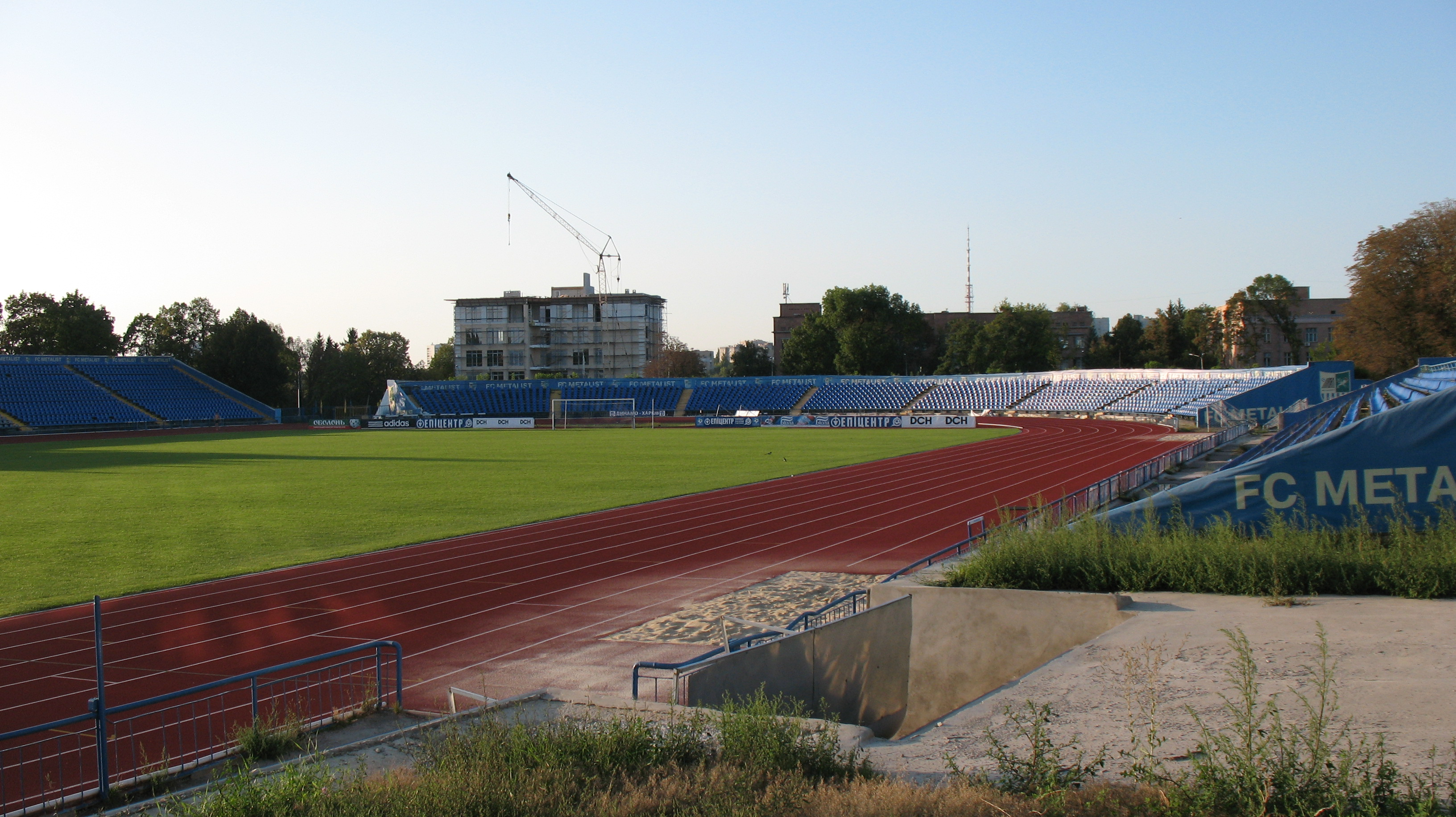 Dinamovskaya Street, 5. Dinamo Football Stadium in Kharkov.